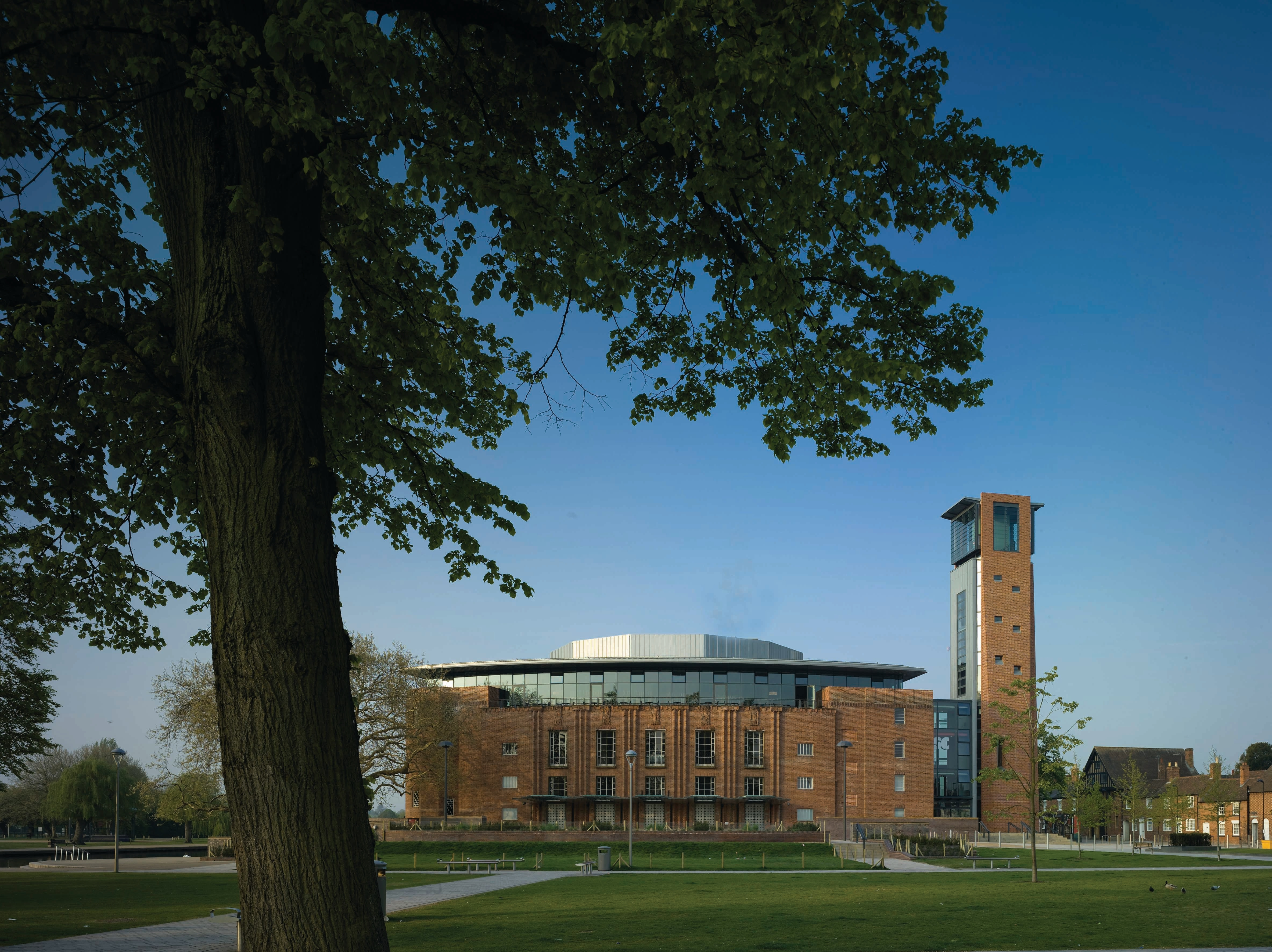 Royal Shakespeare Theatre, Stratford-upon-Avon, Transformation project designed by Bennetts Associates 2010, view from Bancroft Gardens